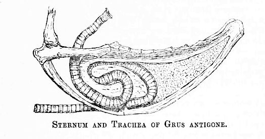 Trachea of Grus antigone